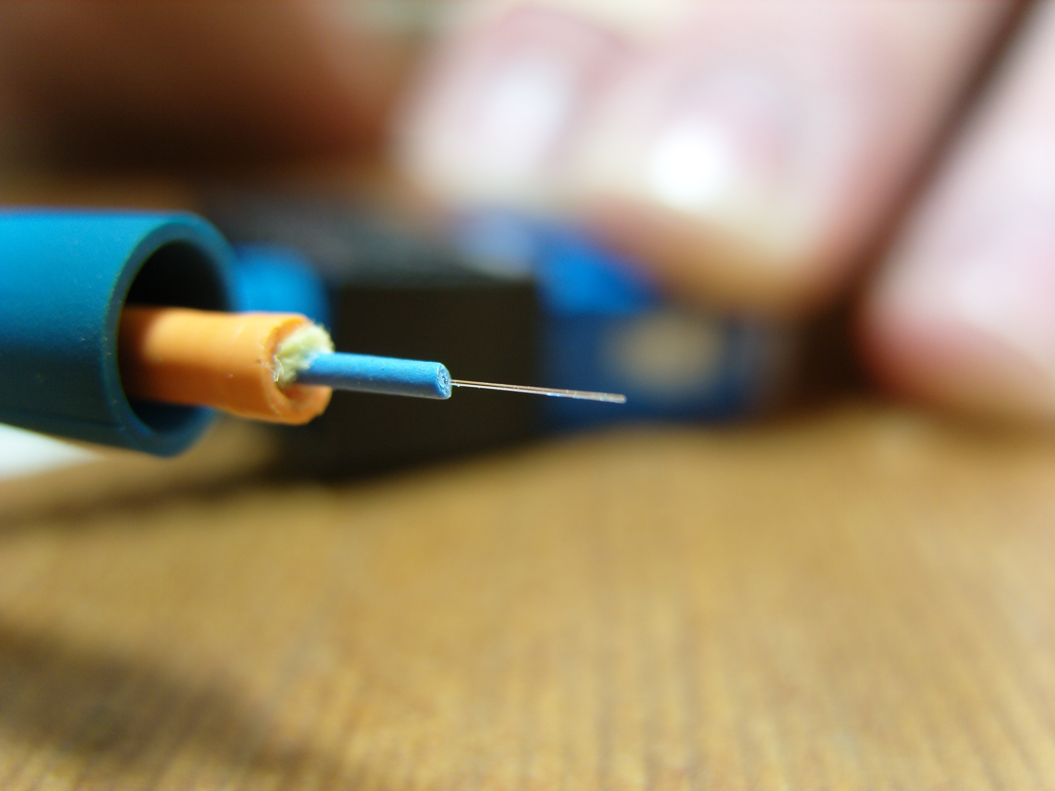 Macro of a multimode fiber used in 1.25Gb/s Fibre Channel with the SC termination removed. Picture taken with a Samsung NV11 digital camera at 10MP, "80 ISO".